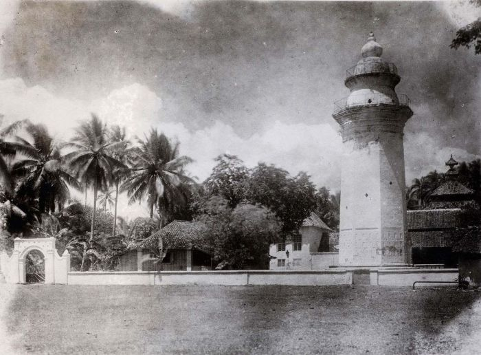 Minaret and mosque